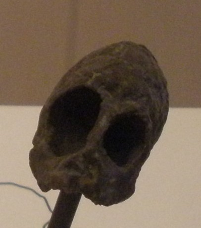 Skull of Dolichocebus, a fossil monkey DateApril 2008Sourcetook the foto on the "American Museum of Natural History" in New YorkAuthorGhedoghedoPermission (Reusing this file) Skull of Dolichocebus, a fossil monkey